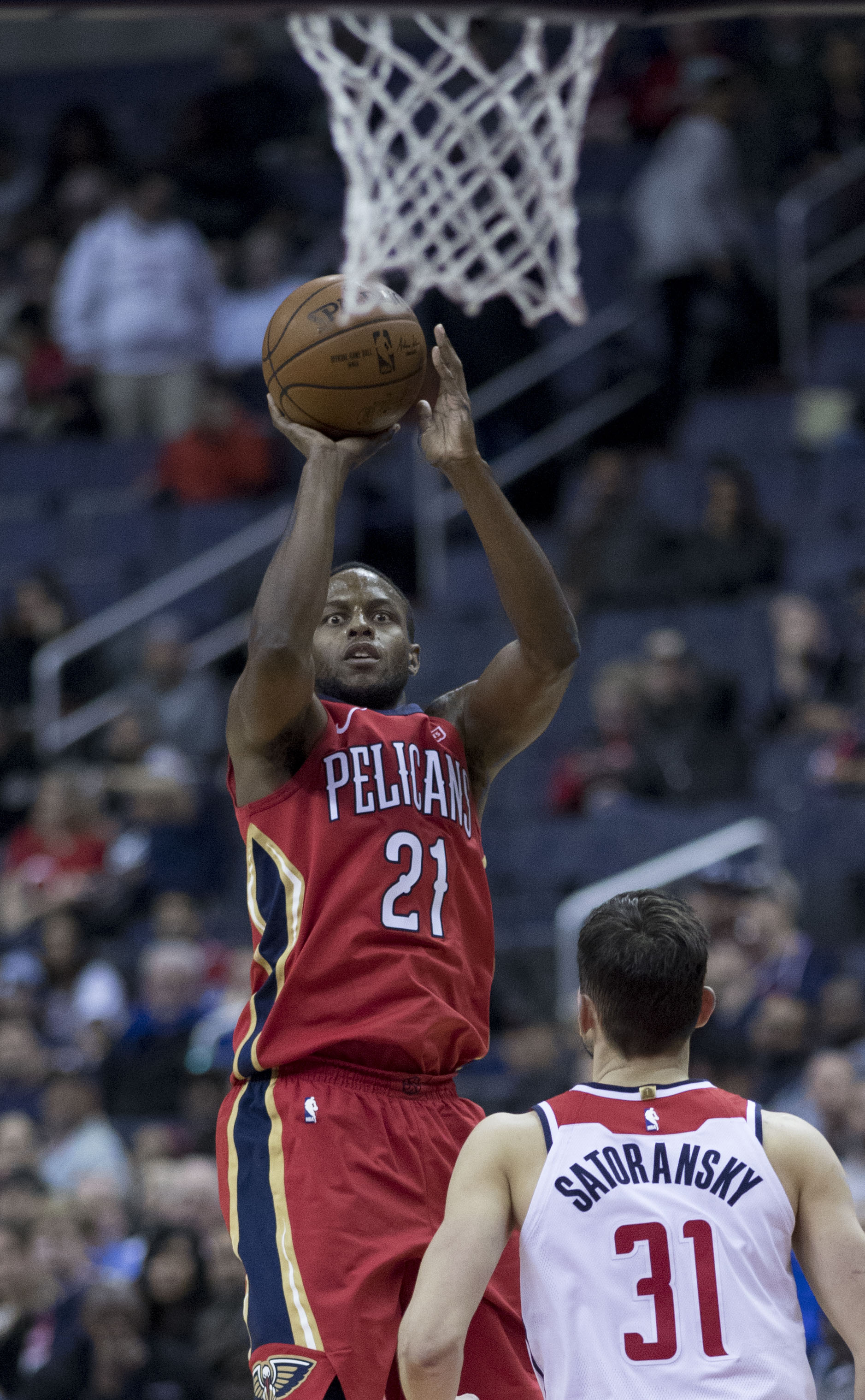 Pelicans at Wizards 12/19/17